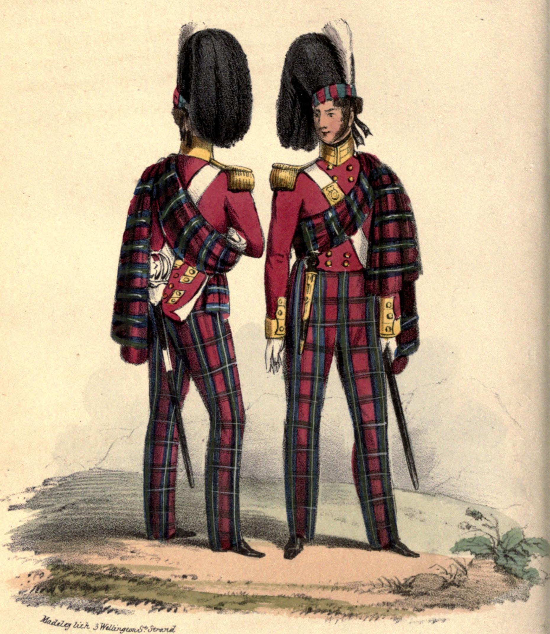 Uniform of the 72nd Foot.